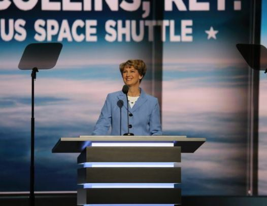 Astronaut Eileen Collins speaks at the 2016 RNC.